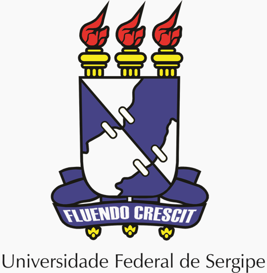 Seal of the Federal University of Sergipe (Universidade Federal de Sergipe), a Brazilian public university.